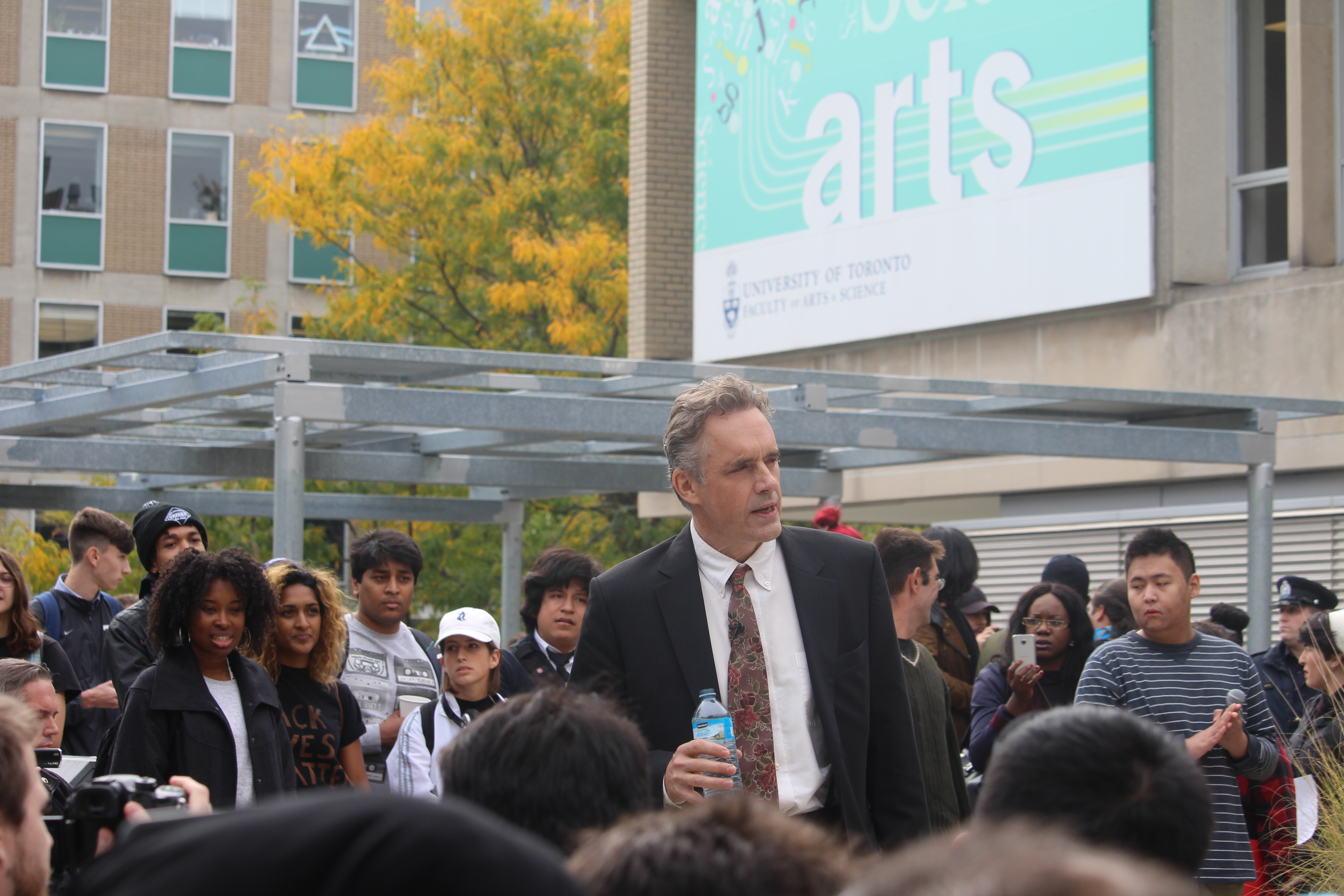 A photo taken at a public rally at the University of Toronto regarding Free Speech